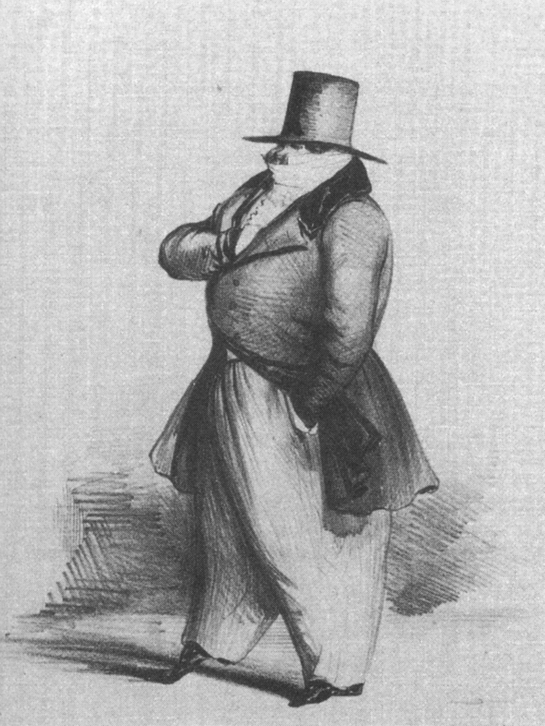 Louis Véron (1798 – 1867), director of the Paris Opera from 1831 to 1835